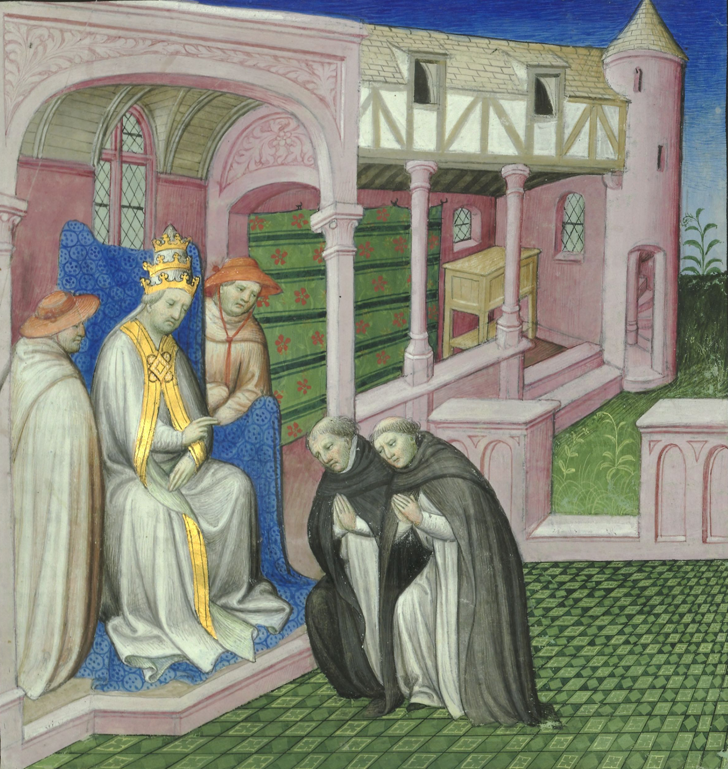 Pope Nicolas IV and Dominican monk Ricoldo of Montecroce. Français 2810, fol. 268